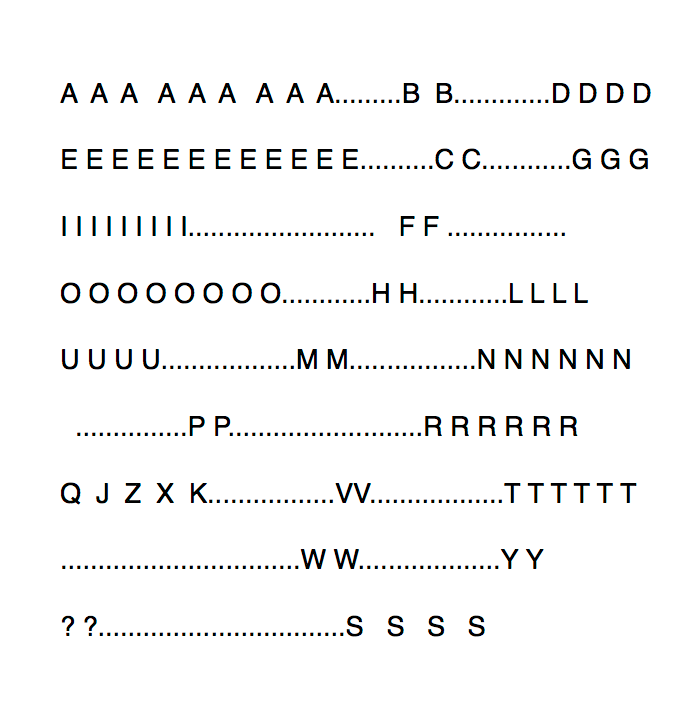 A typical tracking grid used in the practice of tile tracking and tile counting